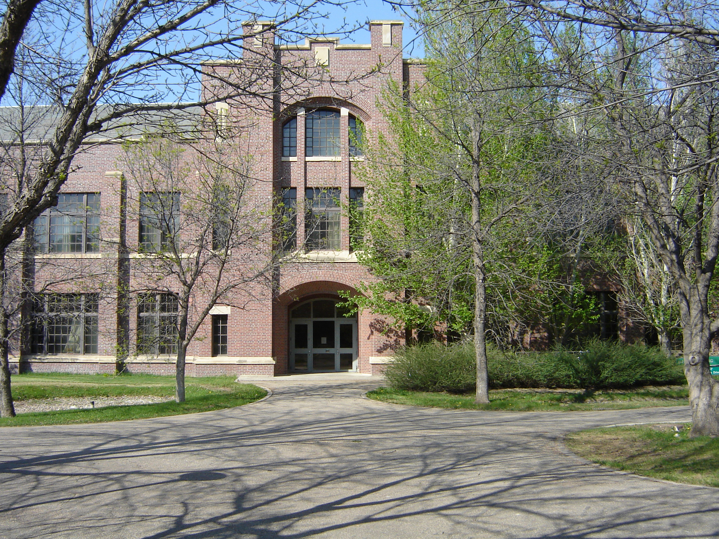 College of Engineering U of S Saskatoon Sasktchewan Canada